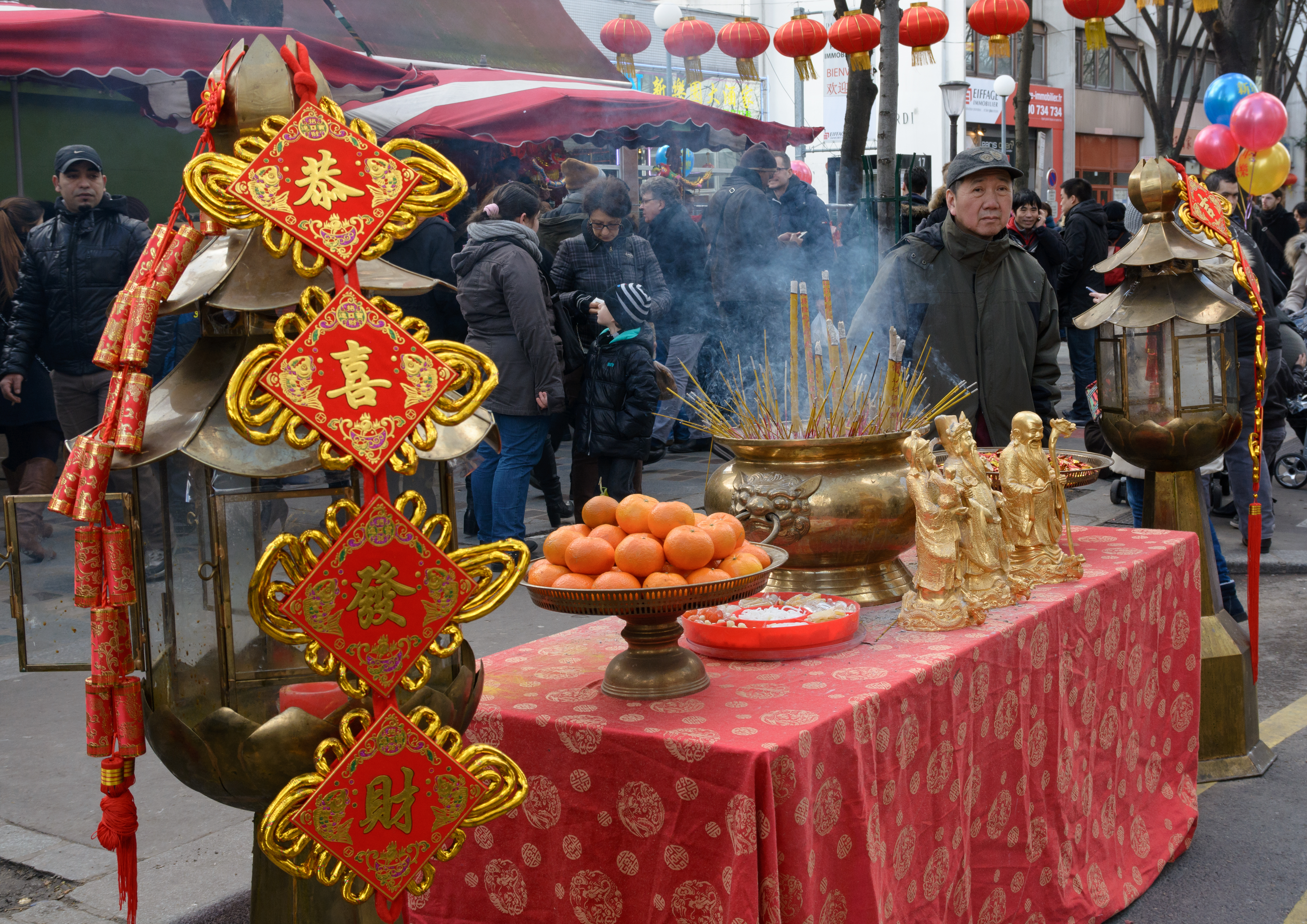 An altar in the street during Chinese New Year 2015 in the 13th arrondissement of Paris, France